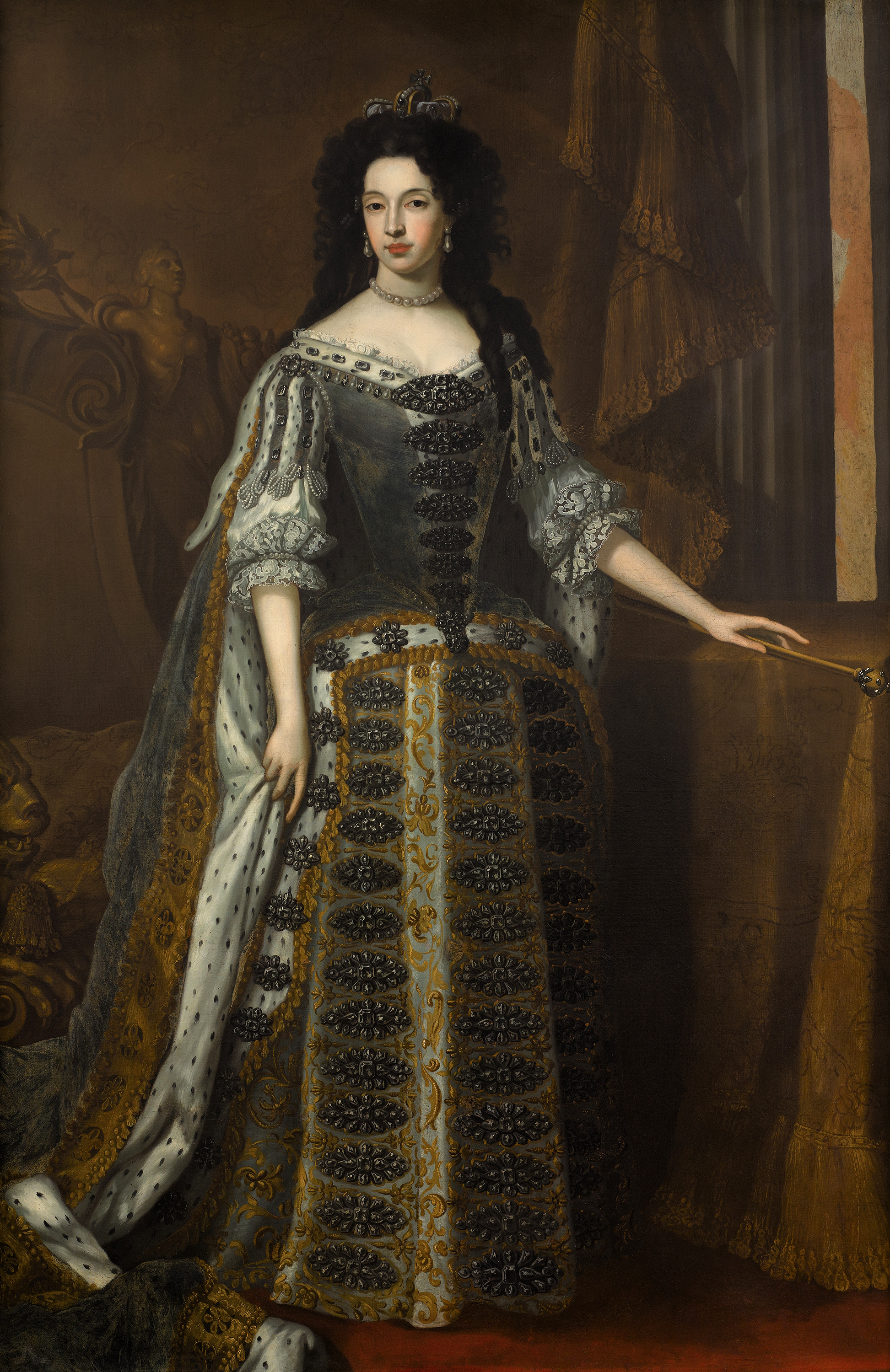 Portrait of Mary of Modena (1658-1718)